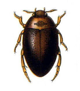 Noterus clavicornis